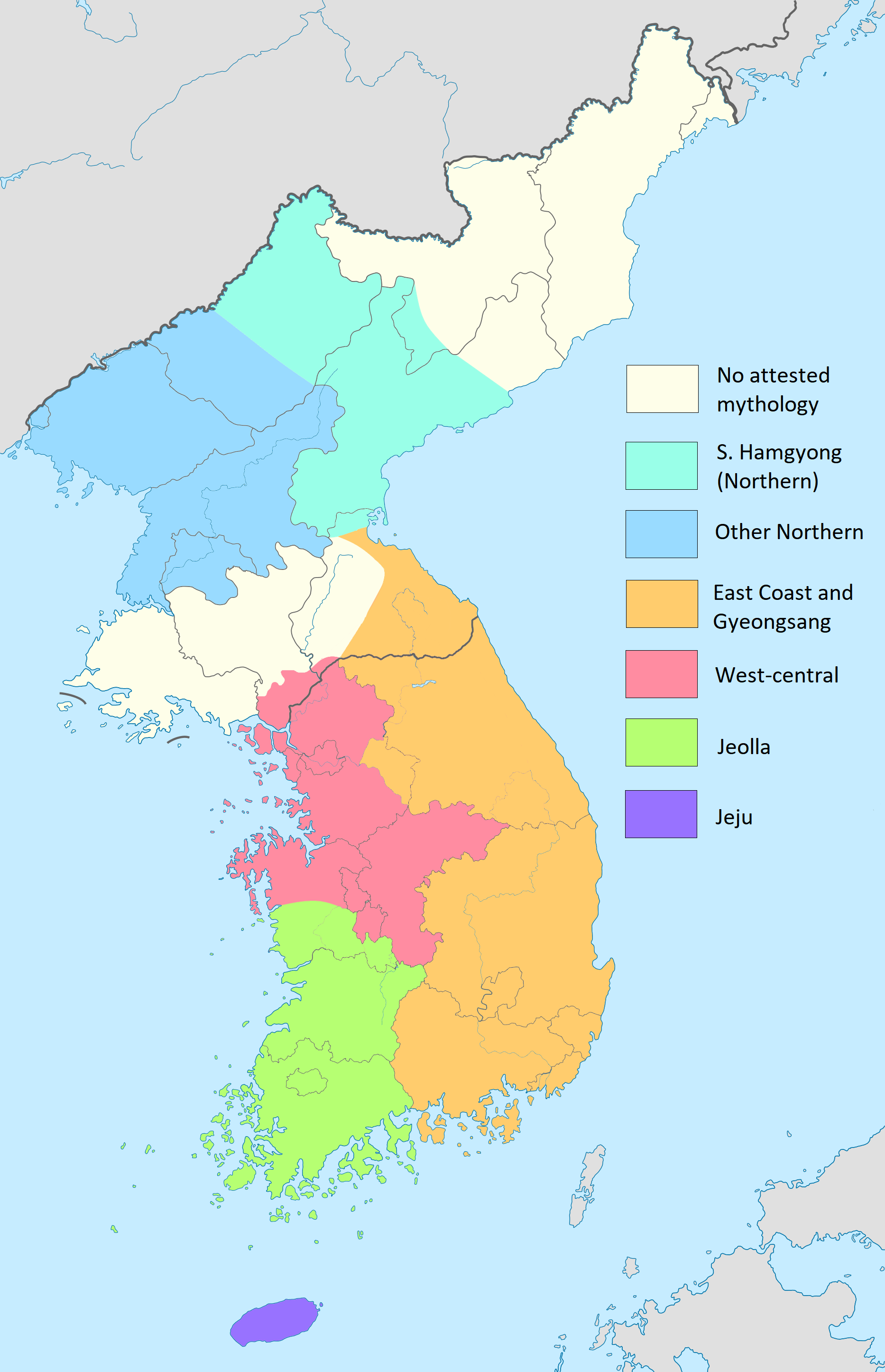 The shamanic mythology of Korea is divided into five regional traditions (Korean: 무가권/巫歌圈 muga-gwon), representing the primary regional variations of the pan-Korean narratives Jeseok bon-puri and Princess Bari. Each of the five regions also has myths not found in the other regions, as well as characteristic preferences in the performance of narratives. The mythological tradition of southern Jeju Island is particularly divergent. Hwanghae Province has no mythological tradition, and shamanism does not exist in northern Hamgyong Province.